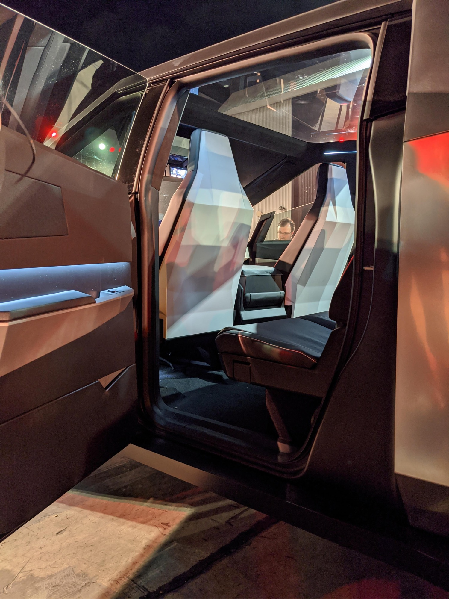 Tesla Cybertruck with second row door open, showing interior, second row, and rear seat backs of first seating row.